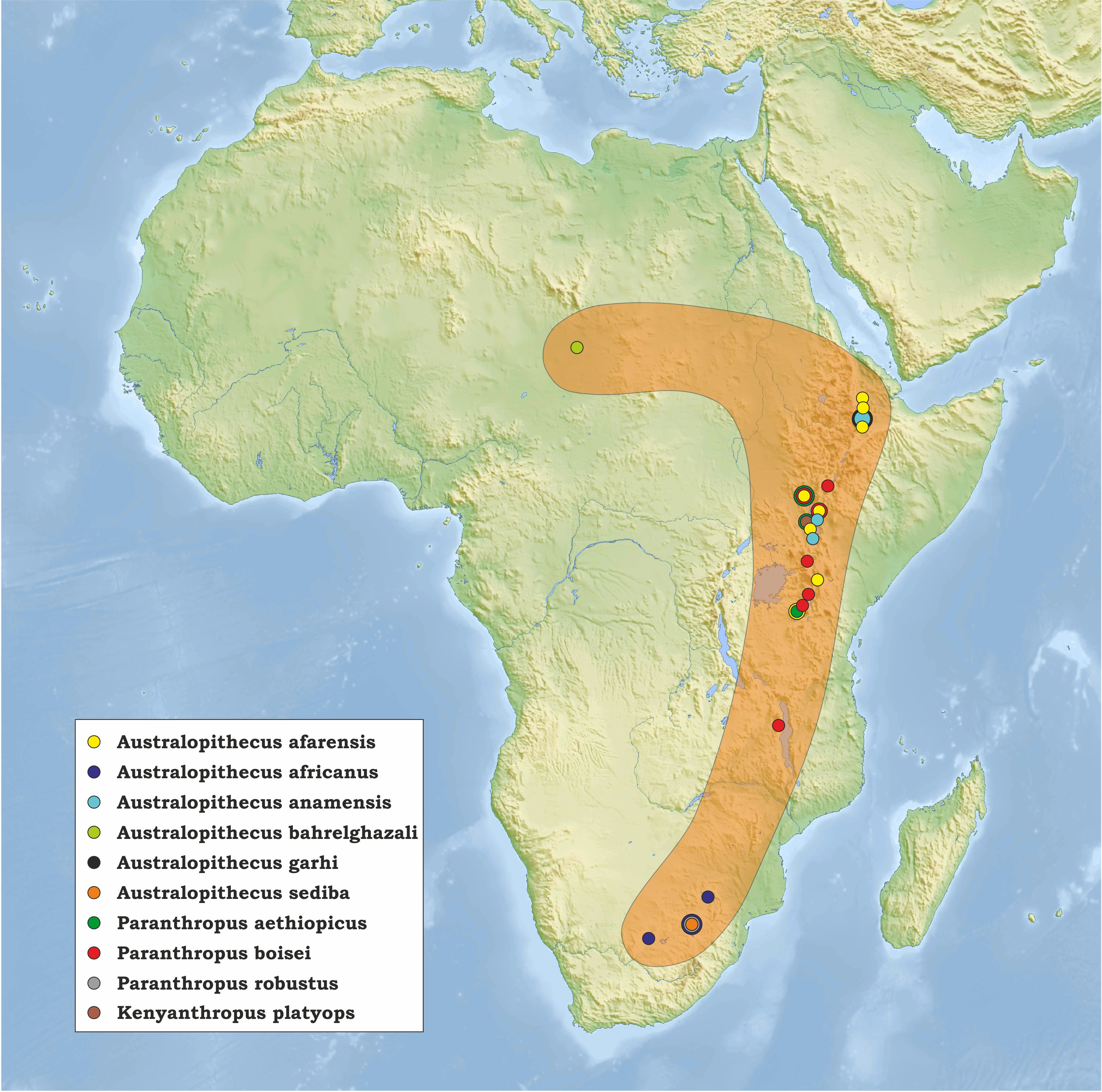 Australopithecus (Paranthropus) paleoanthropological sites in South Africa, Malawi, Tanzania, Kenya, Ethiopia and Chad